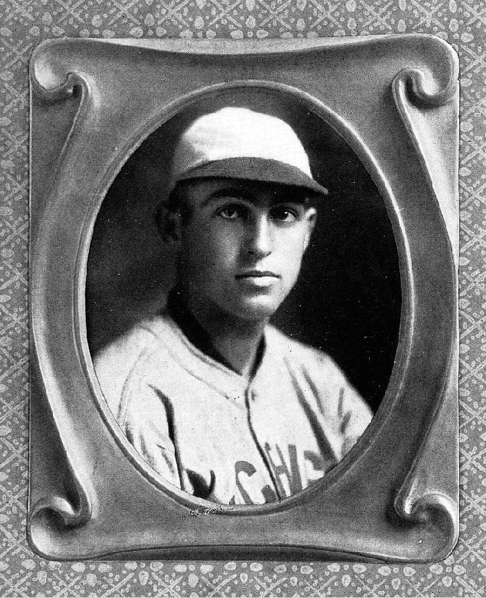 Photograph of Vernon H. "Slicker" Parks